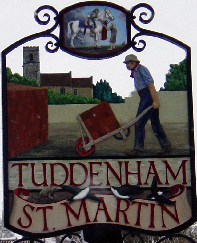 Photograph of Tuddenham St. Martin Village Sign. Taken by me, Luke Gardiner on 30/12/2005 12:49